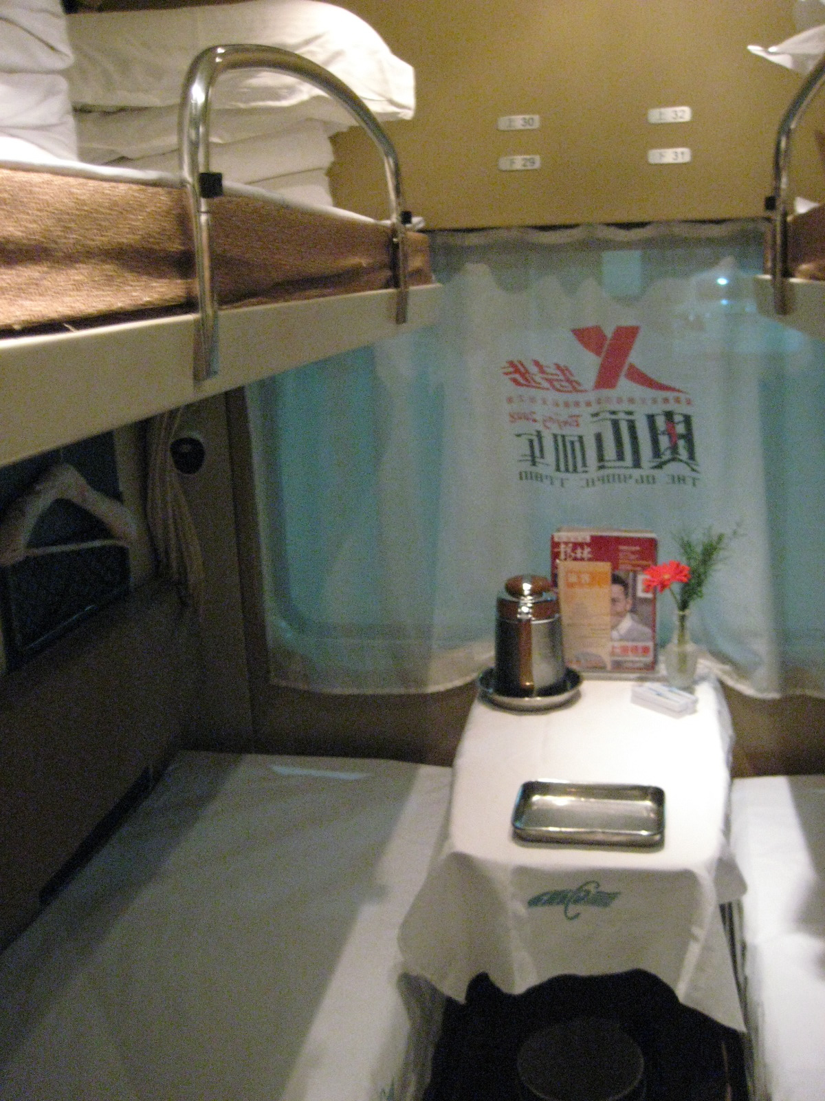 The train from Shanghai to Beijing